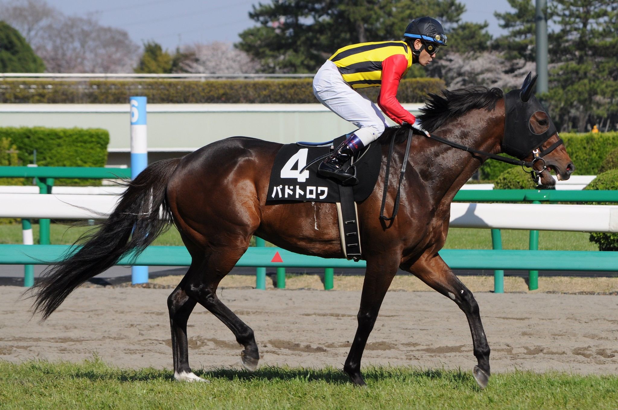 Japanese race horse Pas de Trois at Nakayama racecourse(Funabashi city,Chiba,Japan).